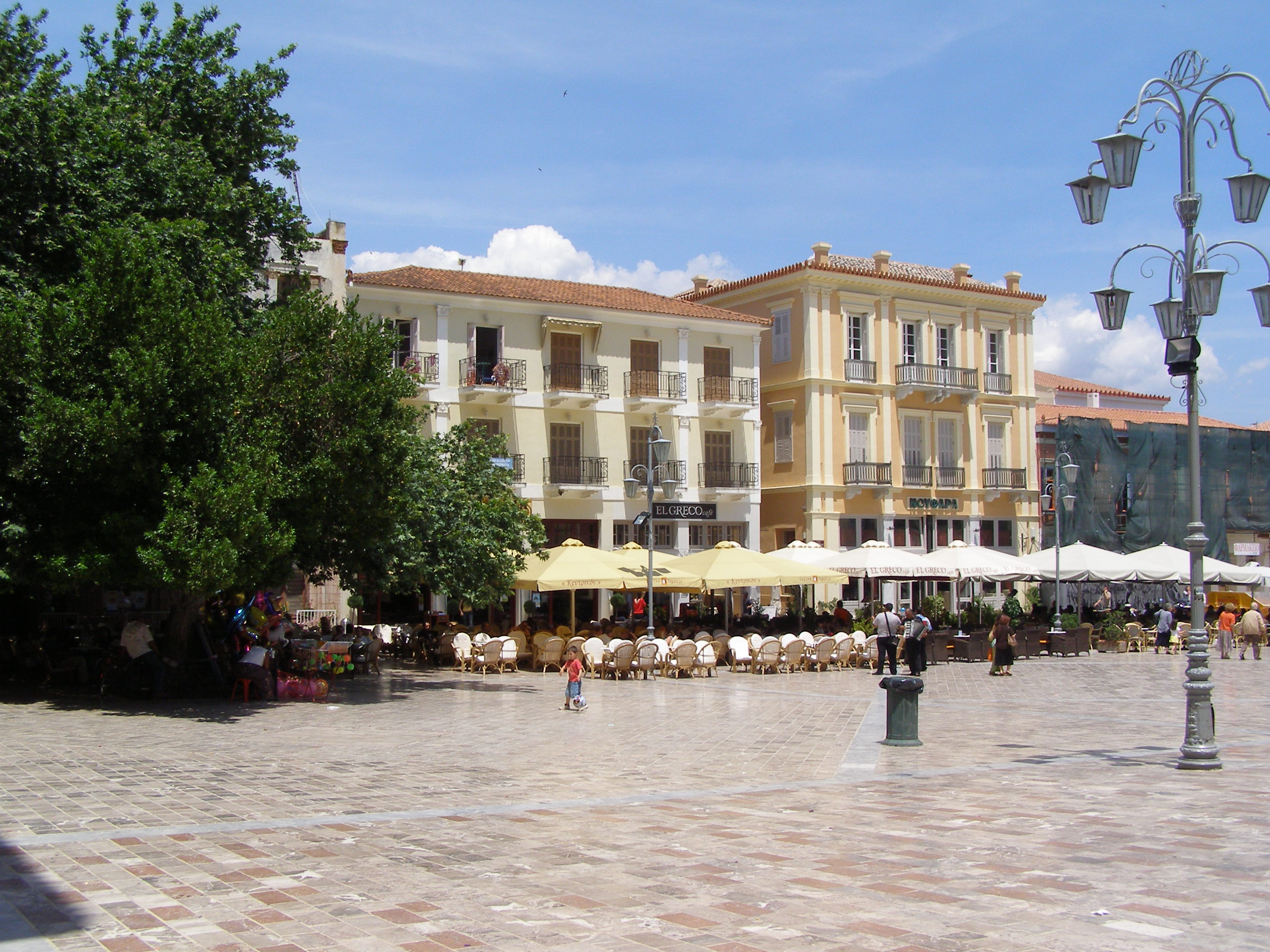 The town square in Nafplio, Greece